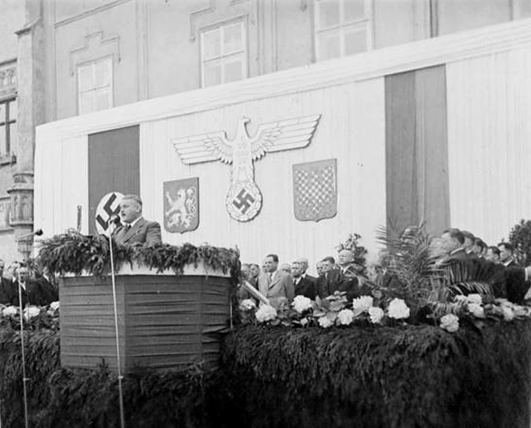 Jaroslav Krejčí giving a speech during the occupation of Czechoslovakia. (In the background: flags of Nazi Germany and the protectorate, coat of arms of Bohemia, Nazi Germany and Morava.)